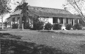 Picture Of 36th President of the United States's, Lyndon B. Johnson, birthplace by National Park Service. Found on NPS website located here: National Park Service - The Presidents (Johnson Historical site)